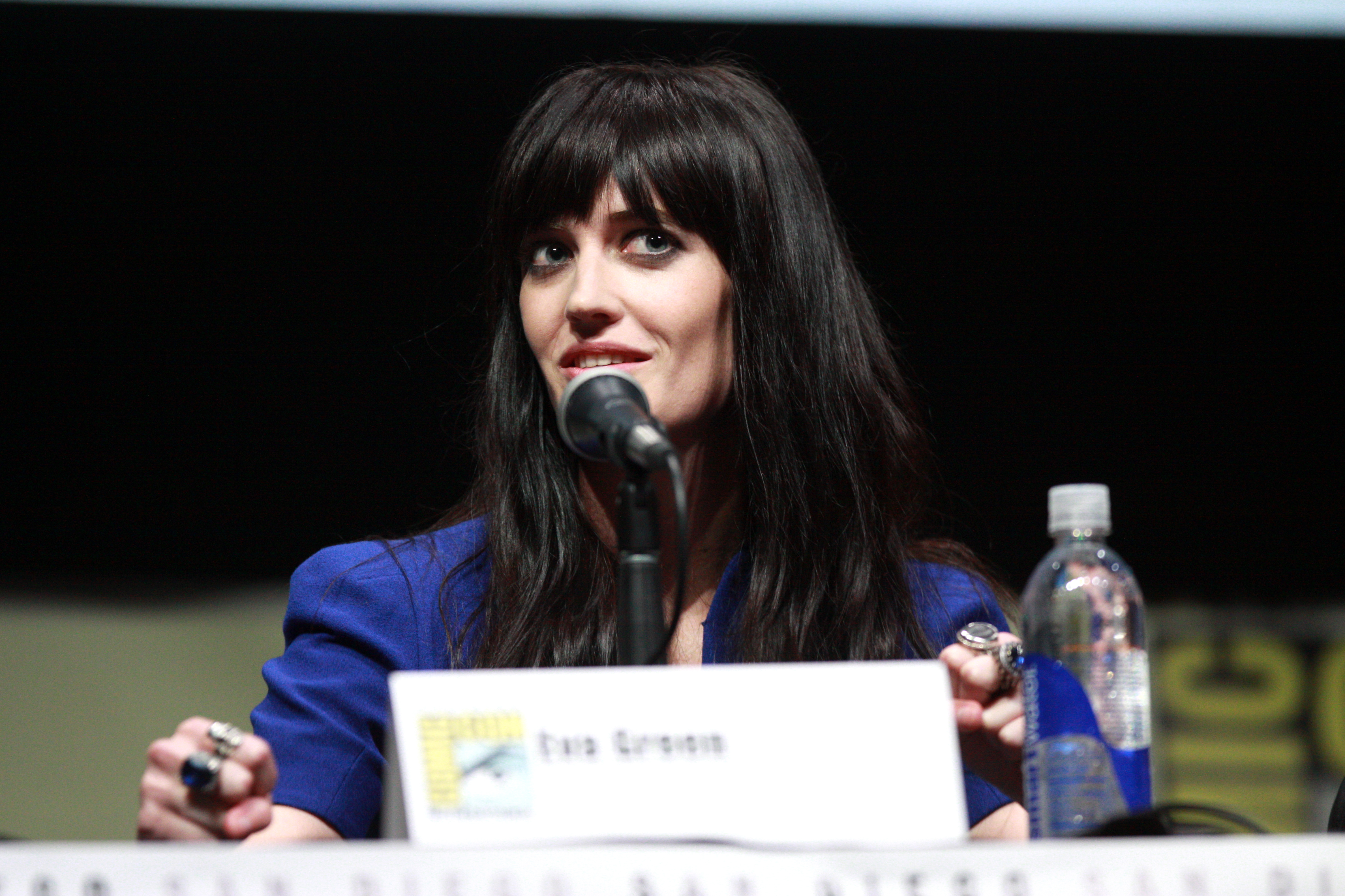 Eva Green speaking at the 2013 San Diego Comic Con International, for "300: Rise of an Empire", at the San Diego Convention Center in San Diego, California.